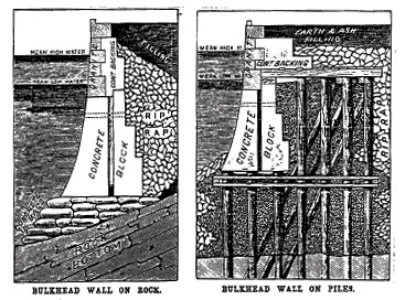 Variations of George S. Greene Jr's bulkhead walls (of the docks and piers of New York City) depending on bottom conditions.